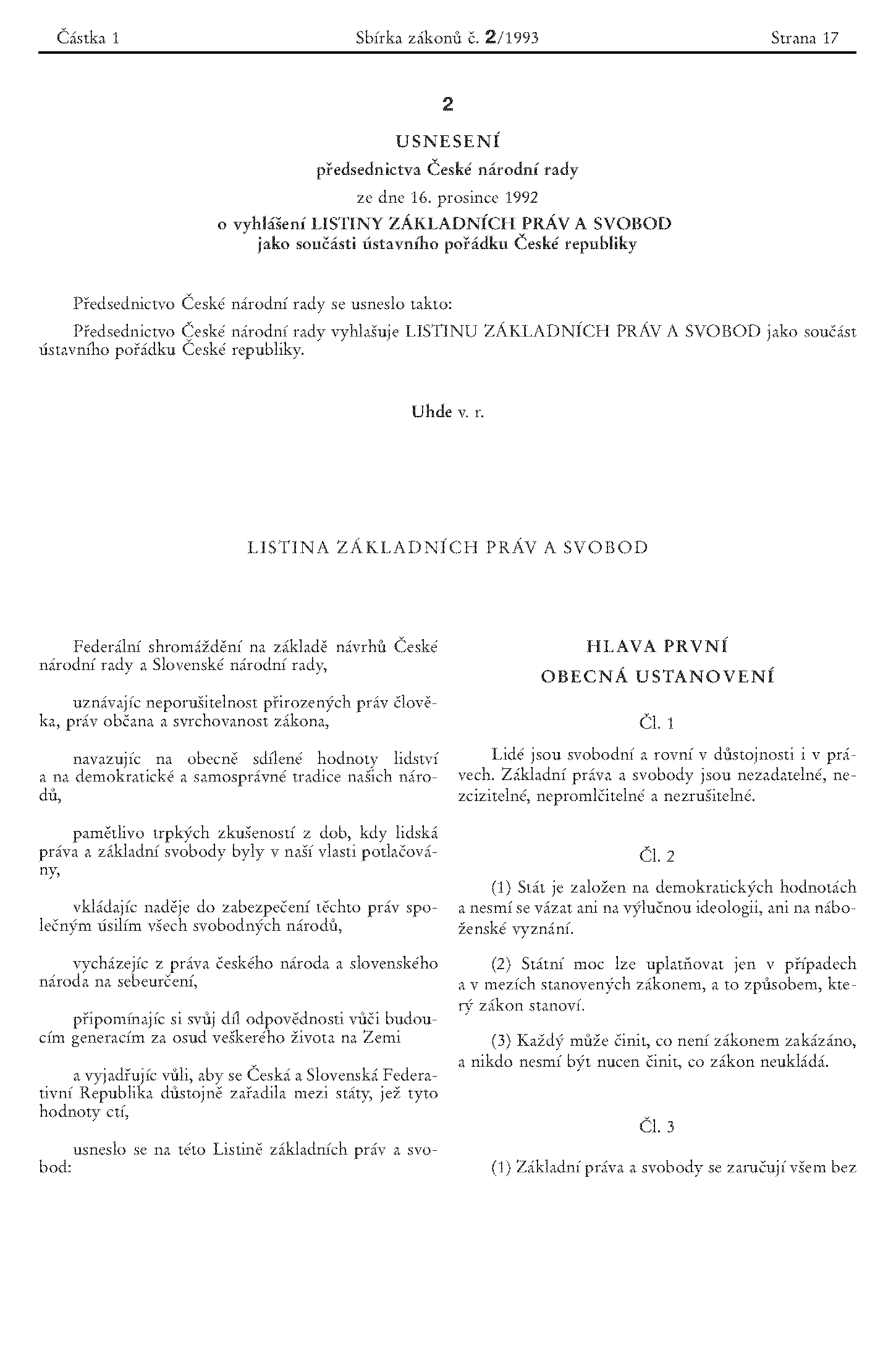 Czech Collection of Laws' official issue with the 1993 Constitution No. 1/1993 Coll. Česky: Stejnopis Sbírky zákonů s Ústavou České republiky (1/1993 Sb.) a Listinou základních práv a svobod (2/1993 Sb.)